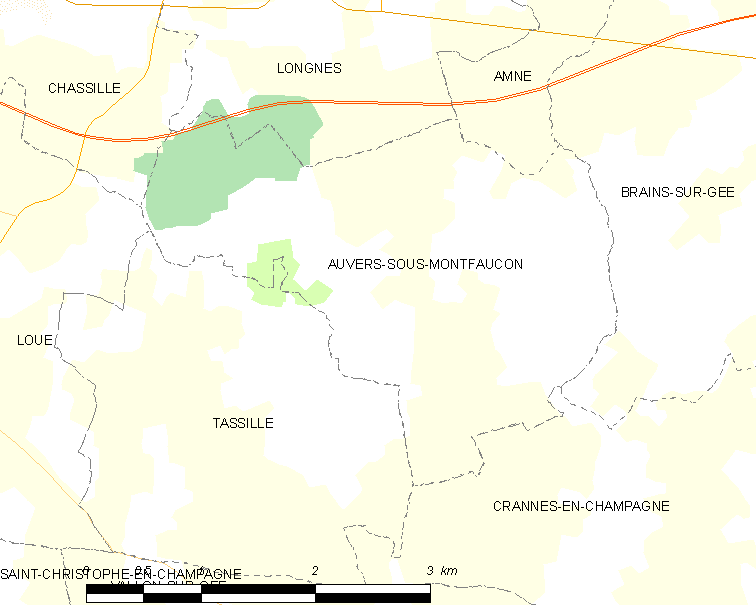 Map of French municipality